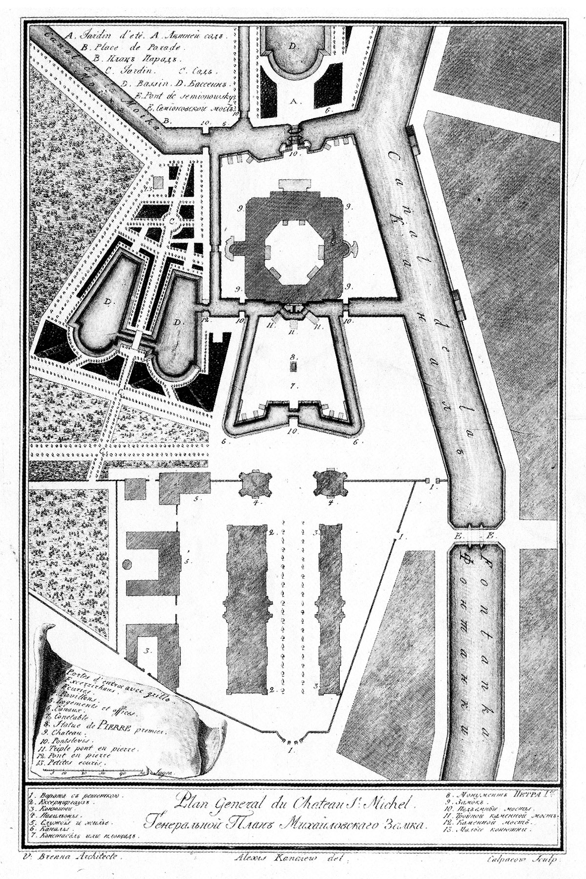 Master plan for the St. Michael's Castle. Original architect's drawing